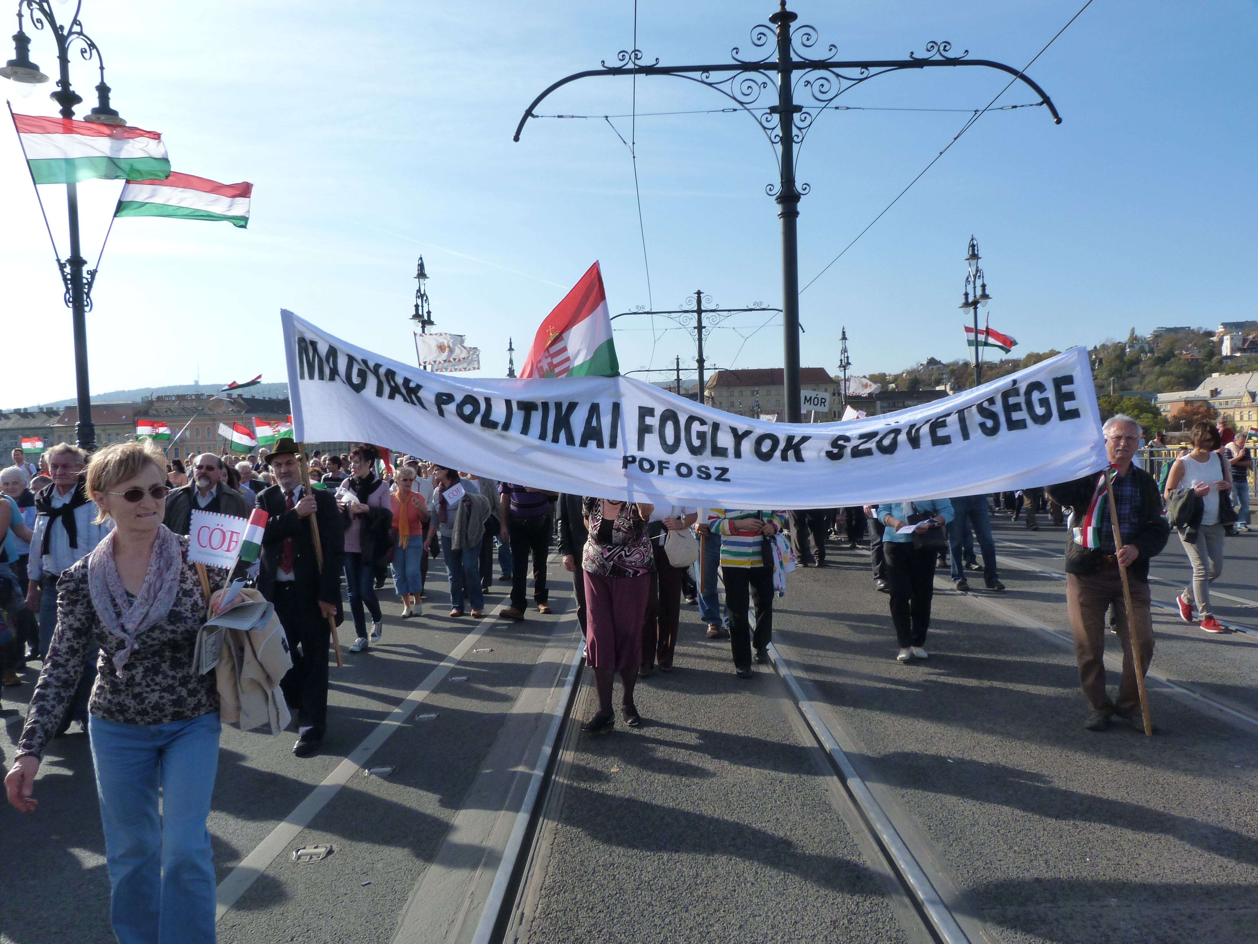 Live on the 23rd of October, 2013. Budapest downtown. The 3rd Peace March for Hungary. Budapest Andrássy út – körút – Oktogon – Andrássy út (Terror Háza) – Körönd – Hősök tere. Pro-goverment demonstration. Sourches: Civil Összefogás Fórum Sajtótájékoztató a 2013. október 23-ai Békemenetről Több százezren a Hősök terén ©© Derzsi Elekes Andor, Budapest, 2013, You are authorised to use these photos and vids under Creative Commons – even for commercial, for profit purposes. Photos must be attributed to Derzsi Elekes Andor. All of the photos and vids in the Metapolisz DVD line are under Creative Commons and can be used even for commercial – for profit – purposes. Recommended Citation Derzsi Elekes Andor: Metapolisz DVD line